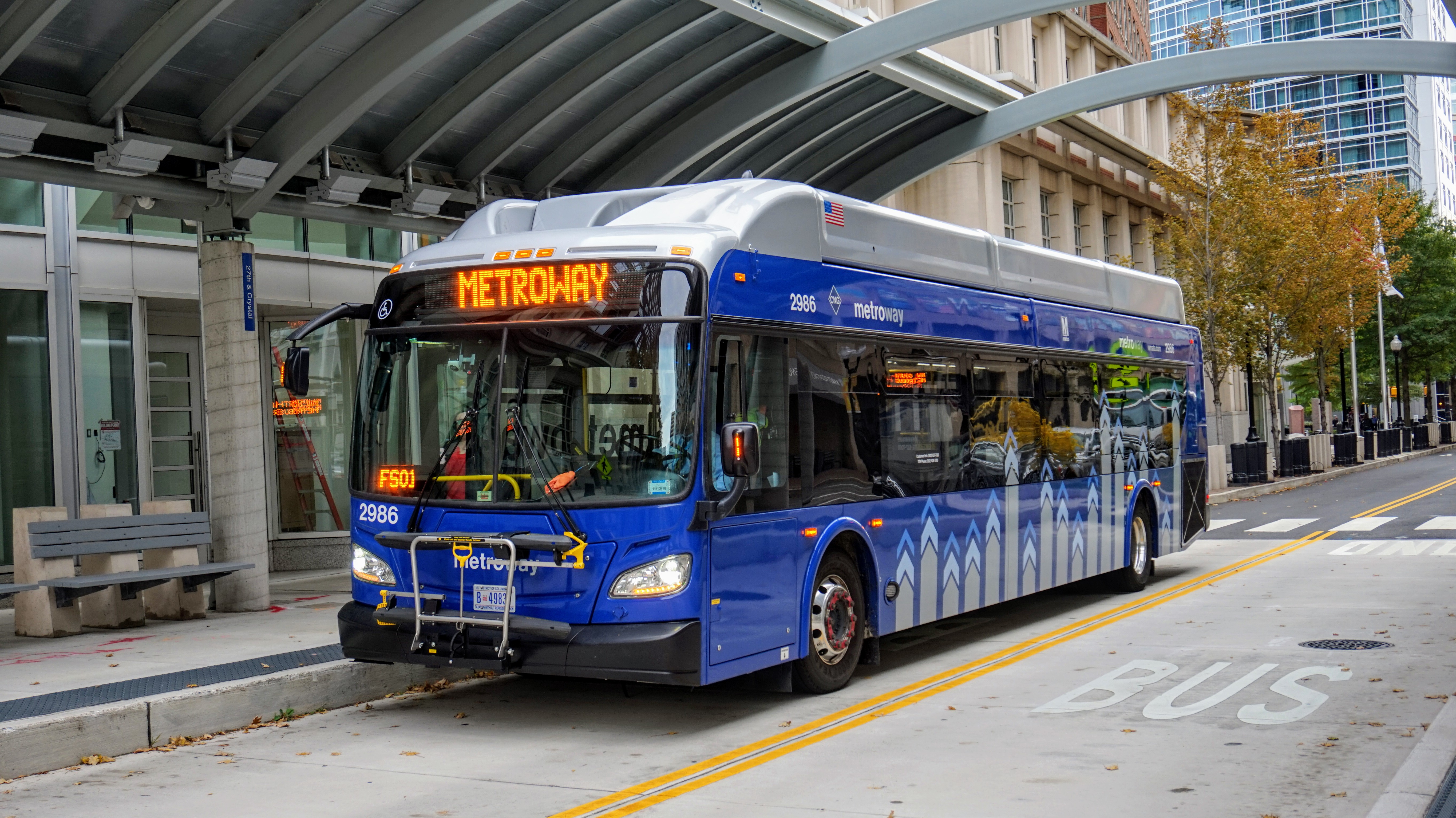 WMATA Metroway 2016 New Flyer Xcelsior XN40 on the Crystal City Transit way